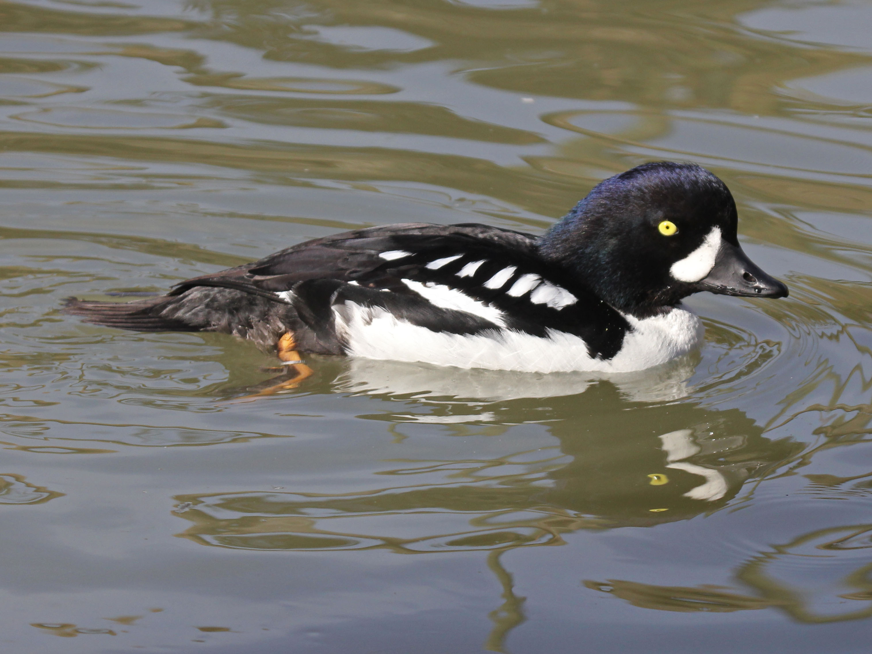 Male Barrow's Goldeneye (Bucephala islandica) - Sylvan Heights Waterfowl Park, North Carolina